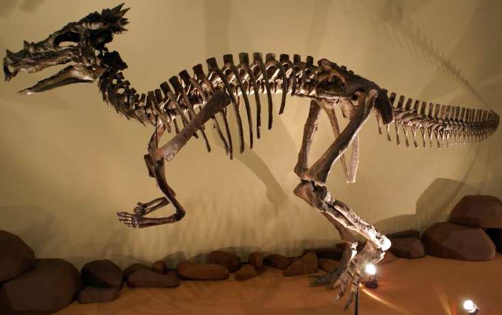 Dracorex skeleton restoration, The Children's Museum of Indianapolis.